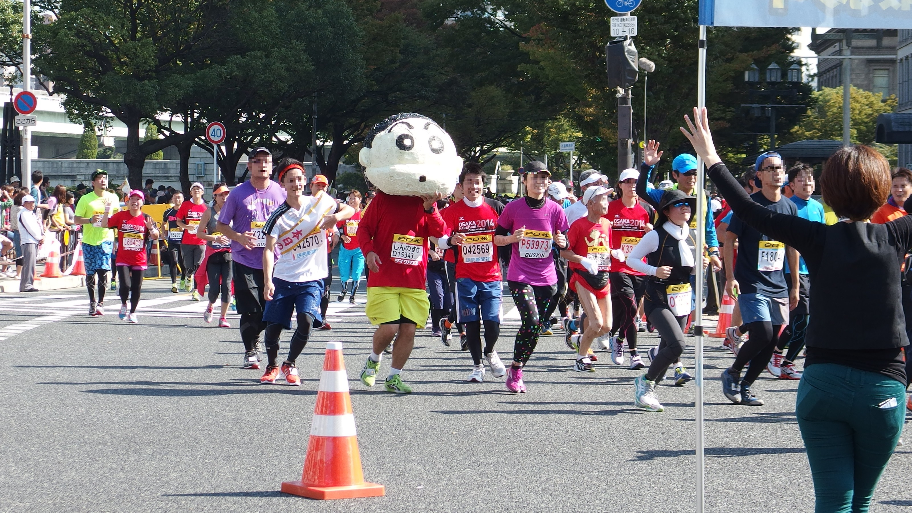 Osaka_Marathon, Osaka, Osaka Prefecture, Japan